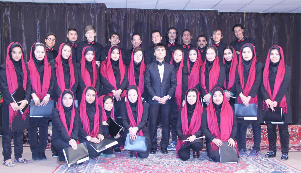 Noor-e Omid Choir, with all members